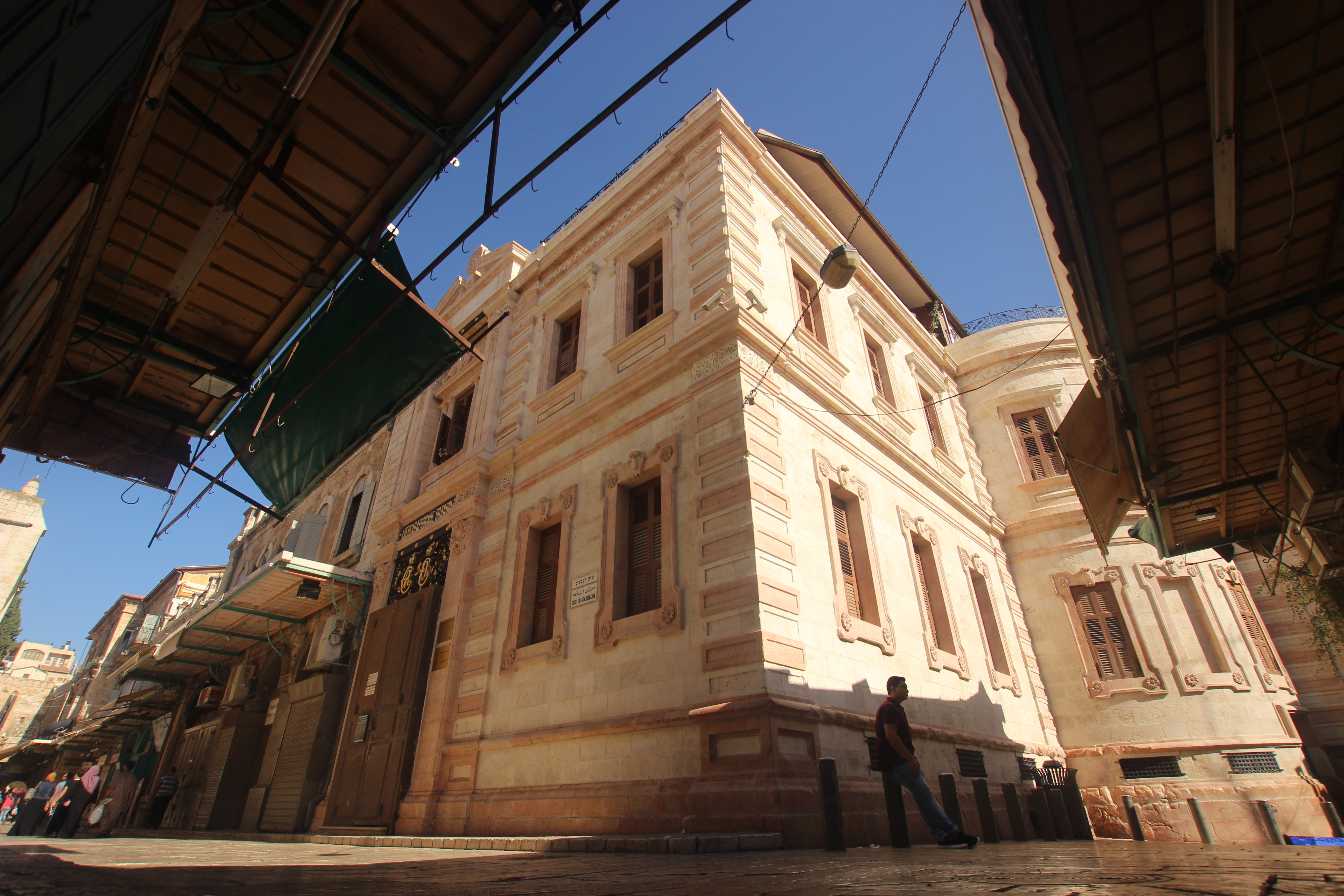 Church of St Alexander Nevsky, Jerusalem